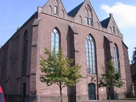 rk O.L. Vrouw ten Hemelopneming, Vianen, Utrecht, The Netherlands